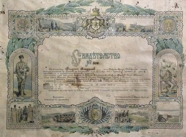 Macedonian Adrianopolitan Volunteer Corps Certificate of Fidan Andreev from Seltsi